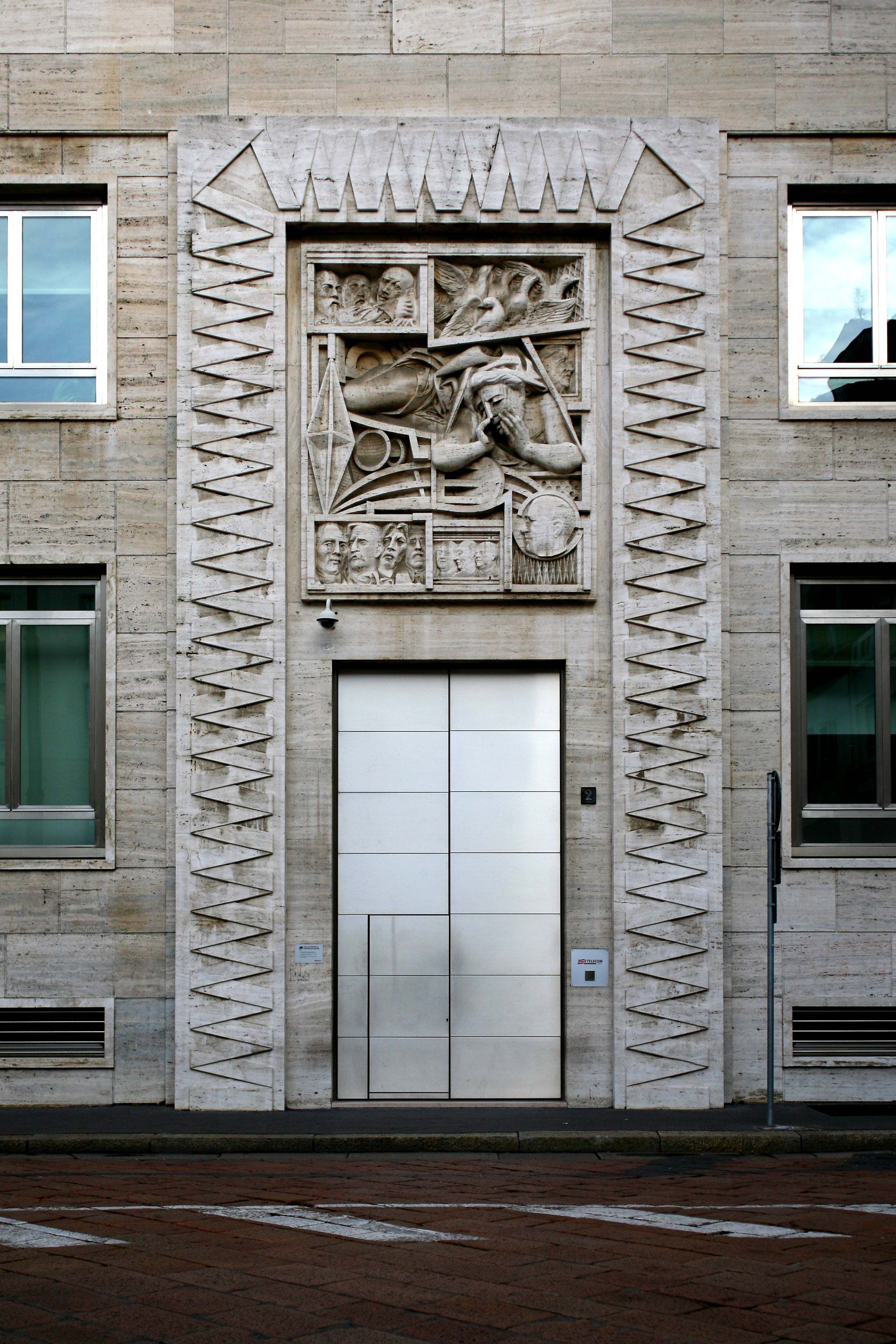 2, Piazza Affari, Milan, Italy: bas-reliev